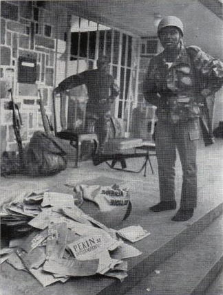 Congolese soldiers with collected Chinese communist propaganda pamphlets entitled "Pékin Information" meant for mass distribution